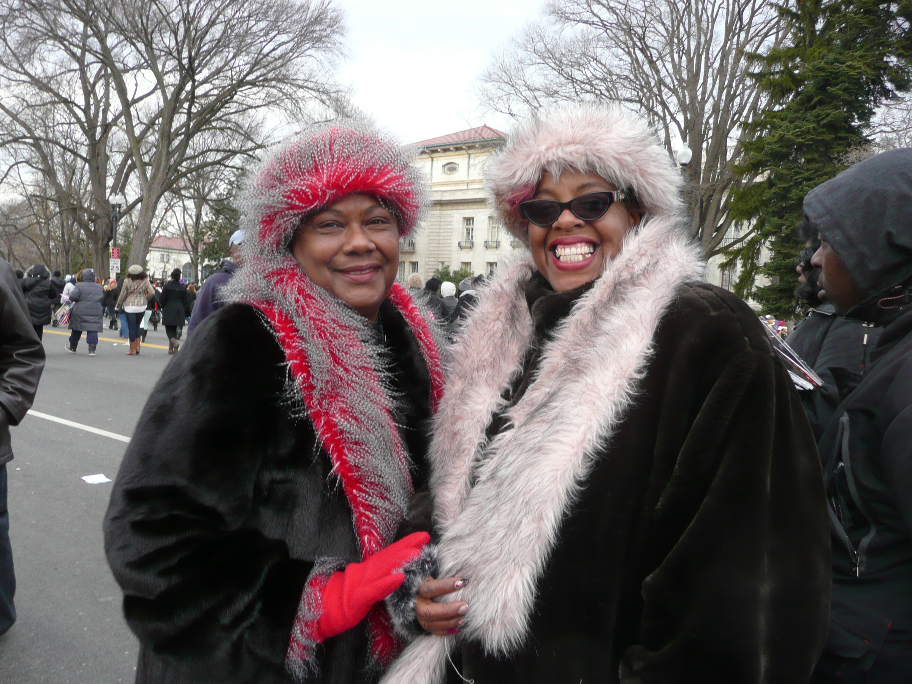 Second inauguration of Barack Obama